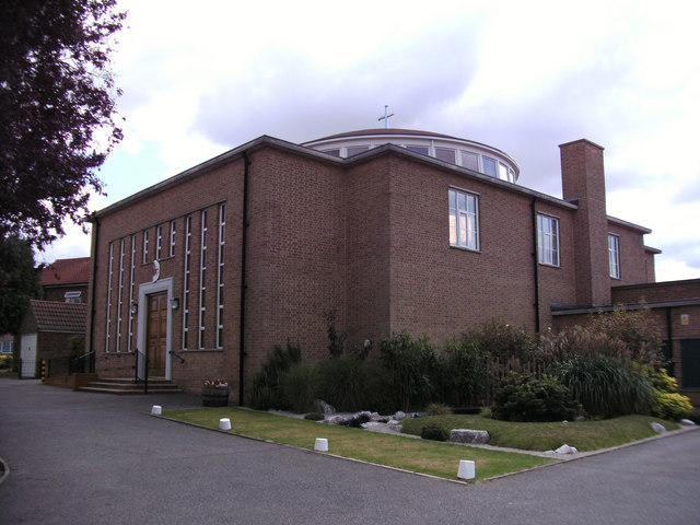 The Holy Name RC Church Chelmsford Essex